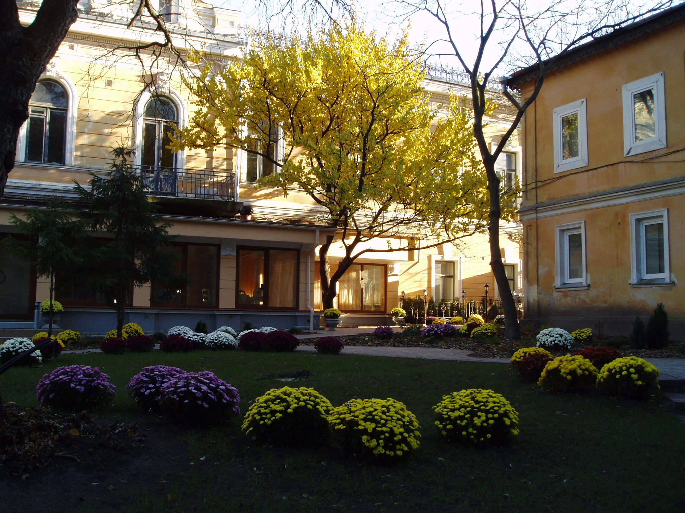 The backyard of the Liberman manor